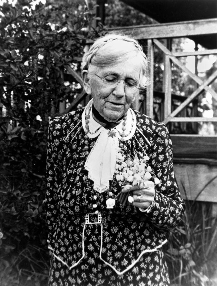 Margaret Ogg, pioneering campaigner for women's rights : [suffragette movement in Queensland] Margaret Ogg in later life, photographed in her garden . In 2005, we are celebrating the centenary of women's suffrage in Queensland. On 5 January 1905, two years after the formation of the Queensland Women's Electoral League, the Electoral Franchise Bill was introduced into the Legislative Assembly to give the women of Queensland the right to vote. The Elections Acts Amendment Bill, provide the necessary machinery, was introduced at the same time. Despite some misgivings about abolishing the plural vote, and difficulty with postal voting, these issues were overcome and the legislation giving the women of Queensland the right to vote was finally passed. It was assented to by the Lieutenant-Governor on 26 January 1905.